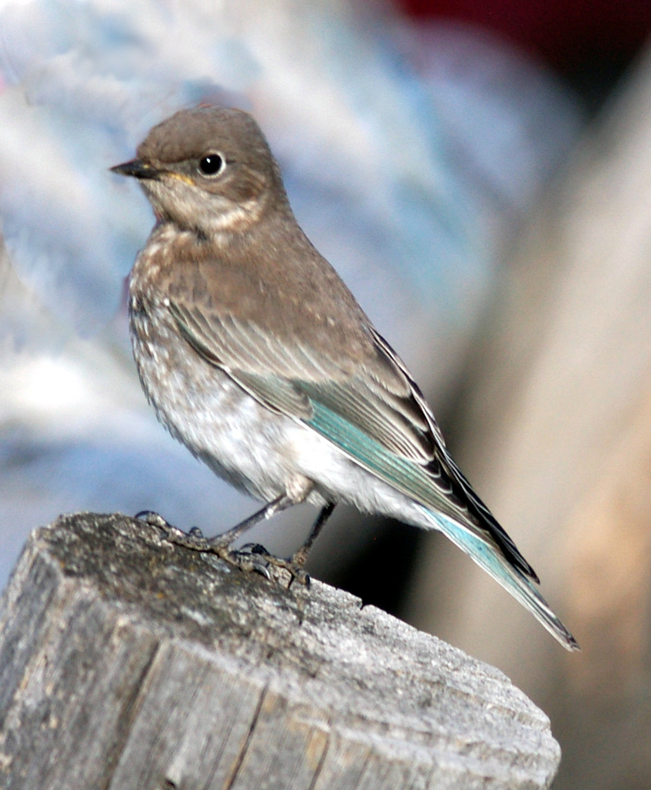 A juvenile Sialia currucoides (Mountain Bluebird), photographed at Grand Teton National Park.